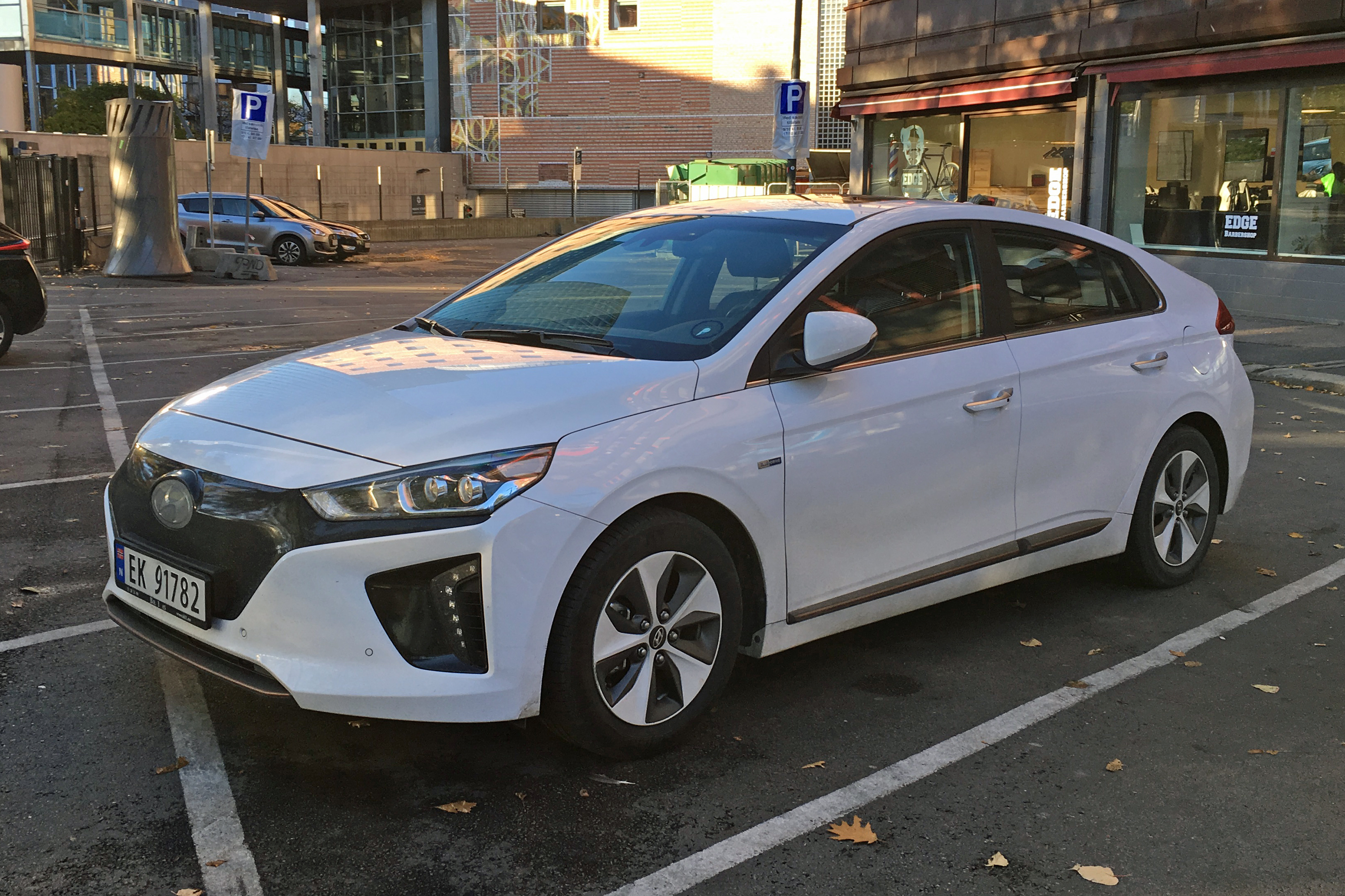 Hyundai Ionic electric in Oslo, Norway.